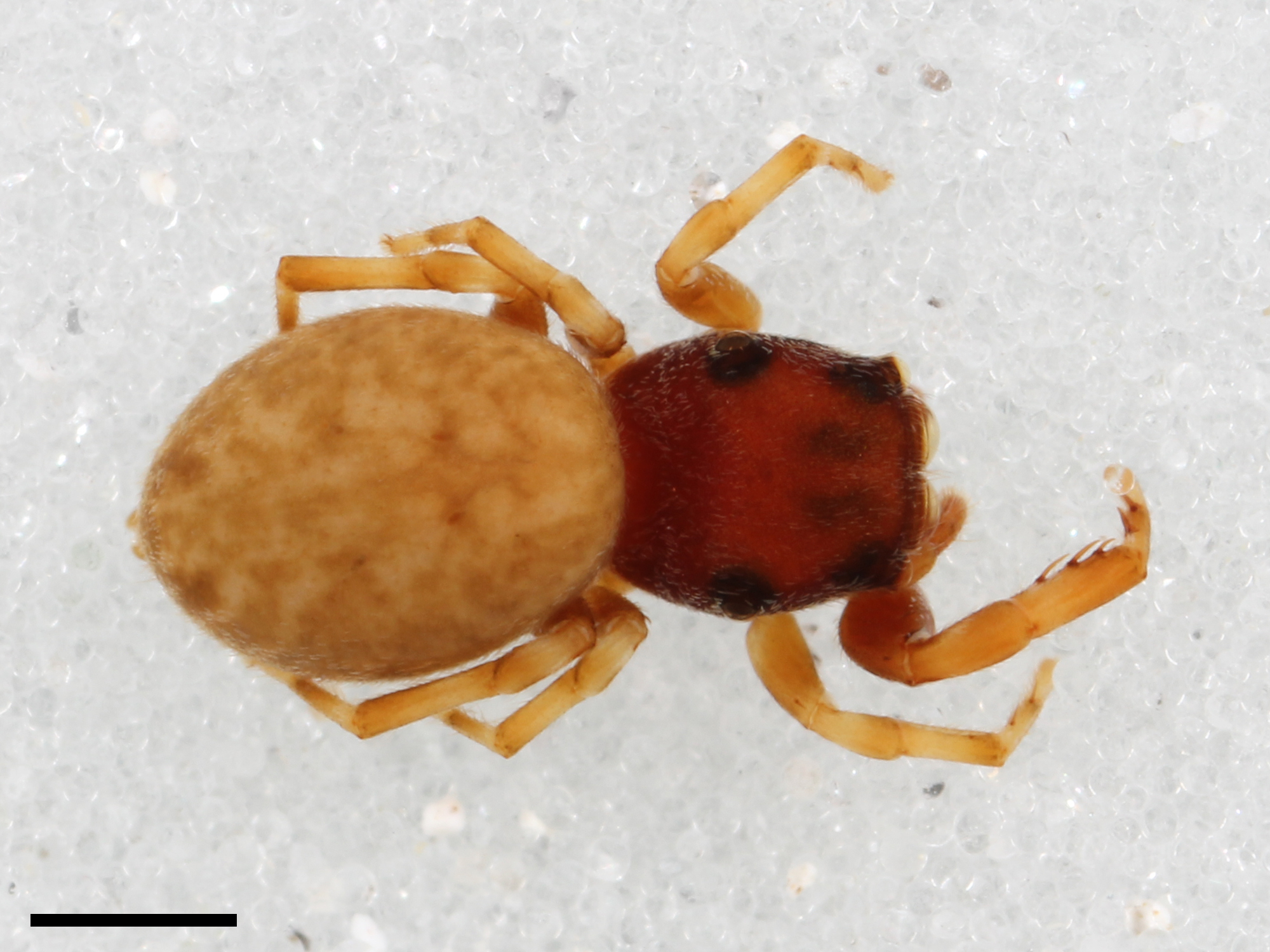 Female allotype of Zygoballus concolor jumping spider. Specimen housed at the Museum of Comparative Zoology, Cambridge, Massachusetts. Dorsal view under alcohol. Scale equals 1 mm.